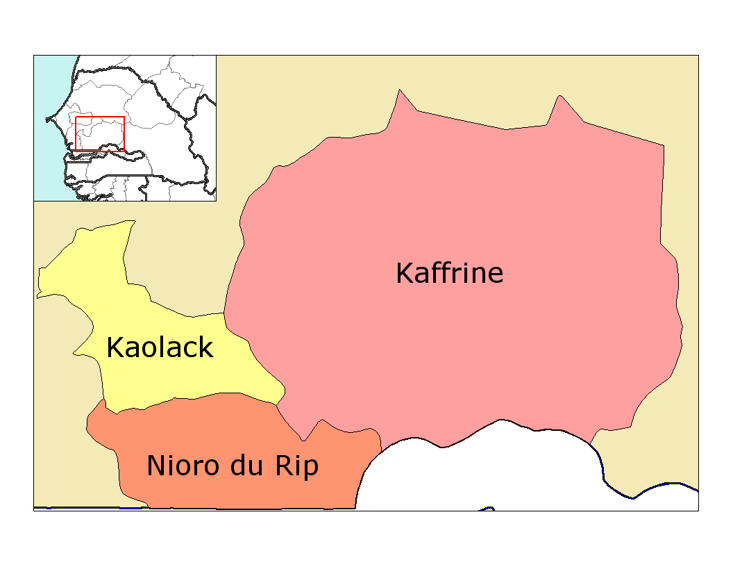 Map of the departments of Kaolack region in Senegal. Created by Rarelibra 22:30, 28 December 2006 (UTC) for public domain use, using MapInfo Professional v8.5 and various mapping resources.